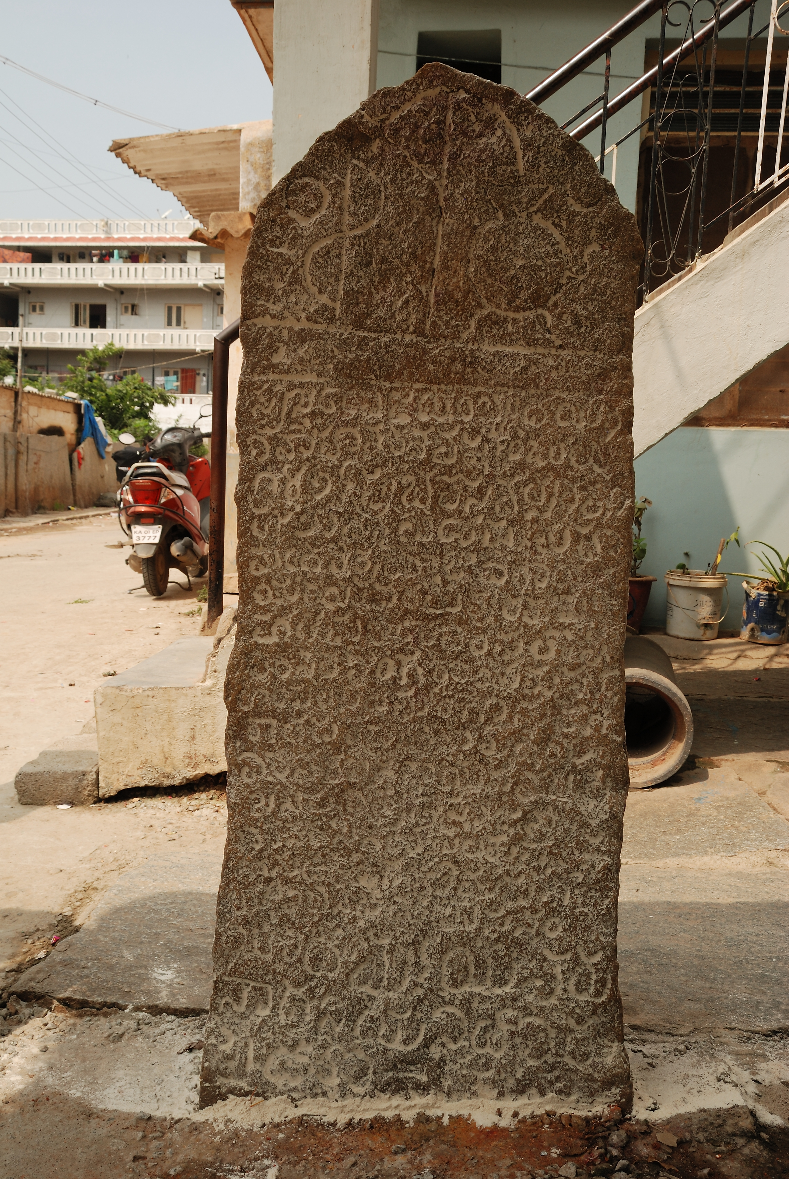 inscriptionstonesofbangalore